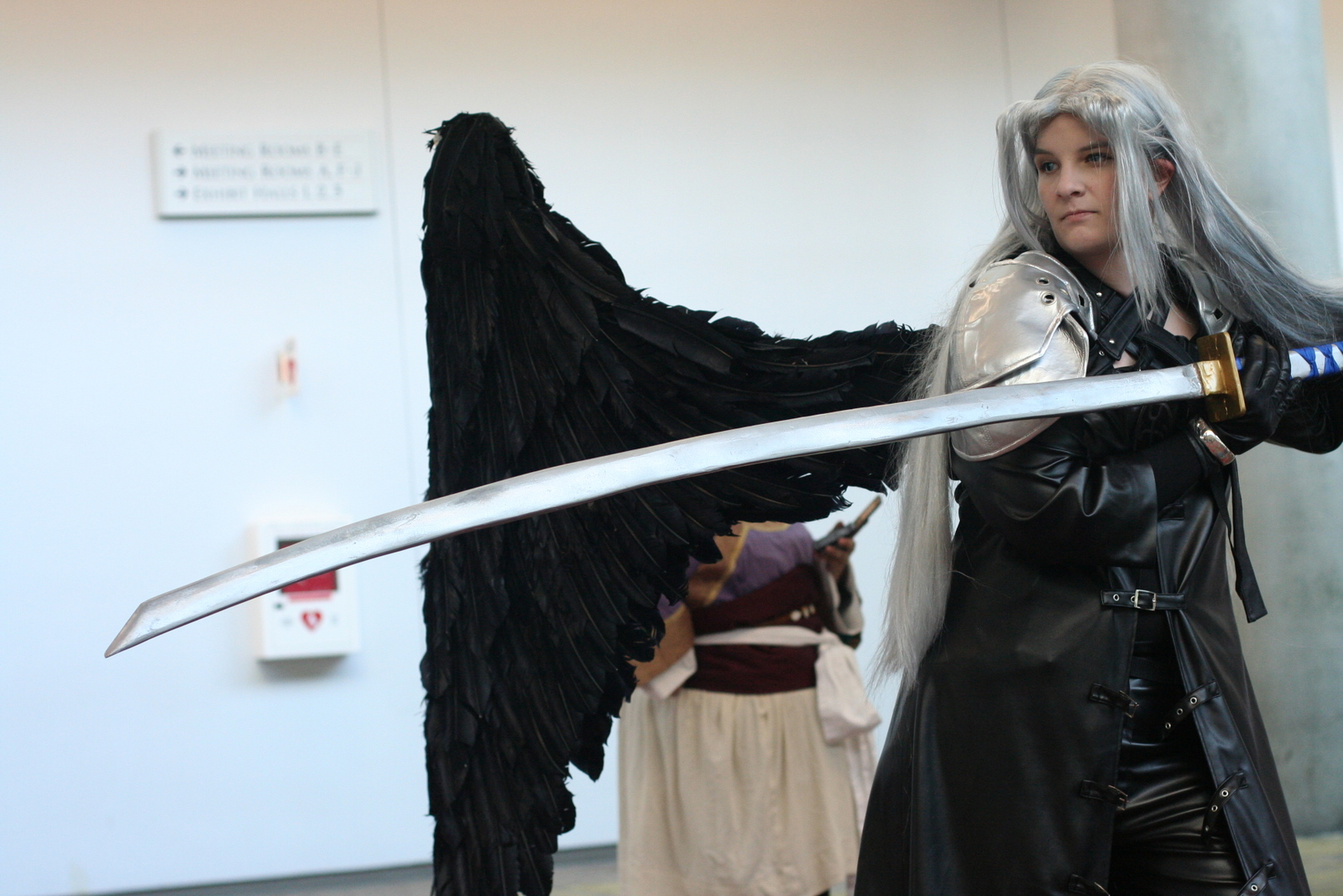 Shepiroth cosplay in Fanime 2009